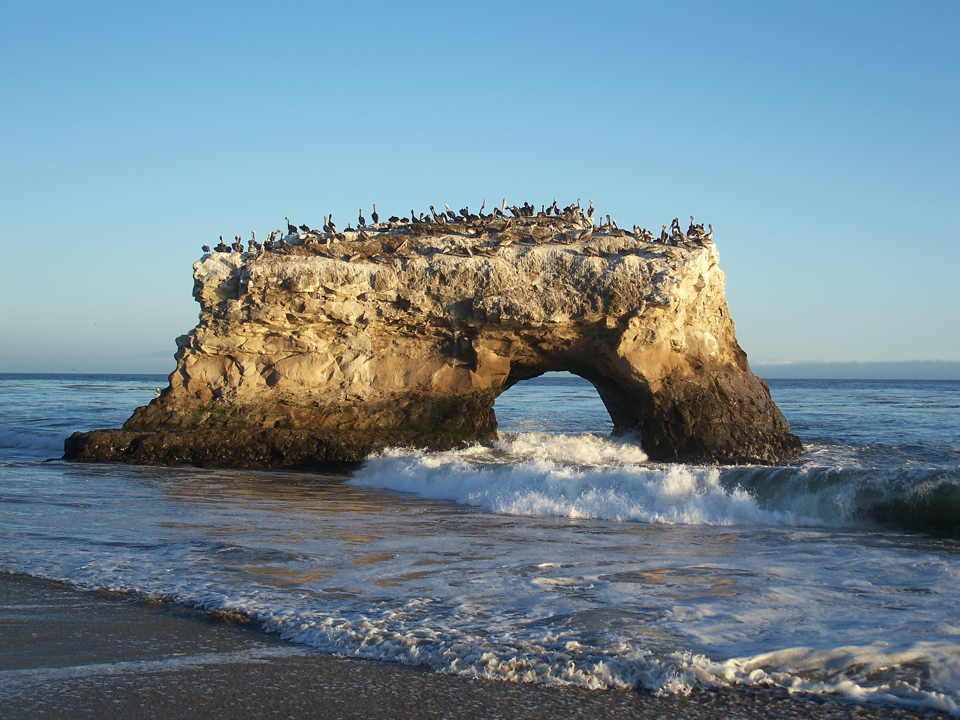 Natural Bridges State Beach. Santa Cruz, California, USA.